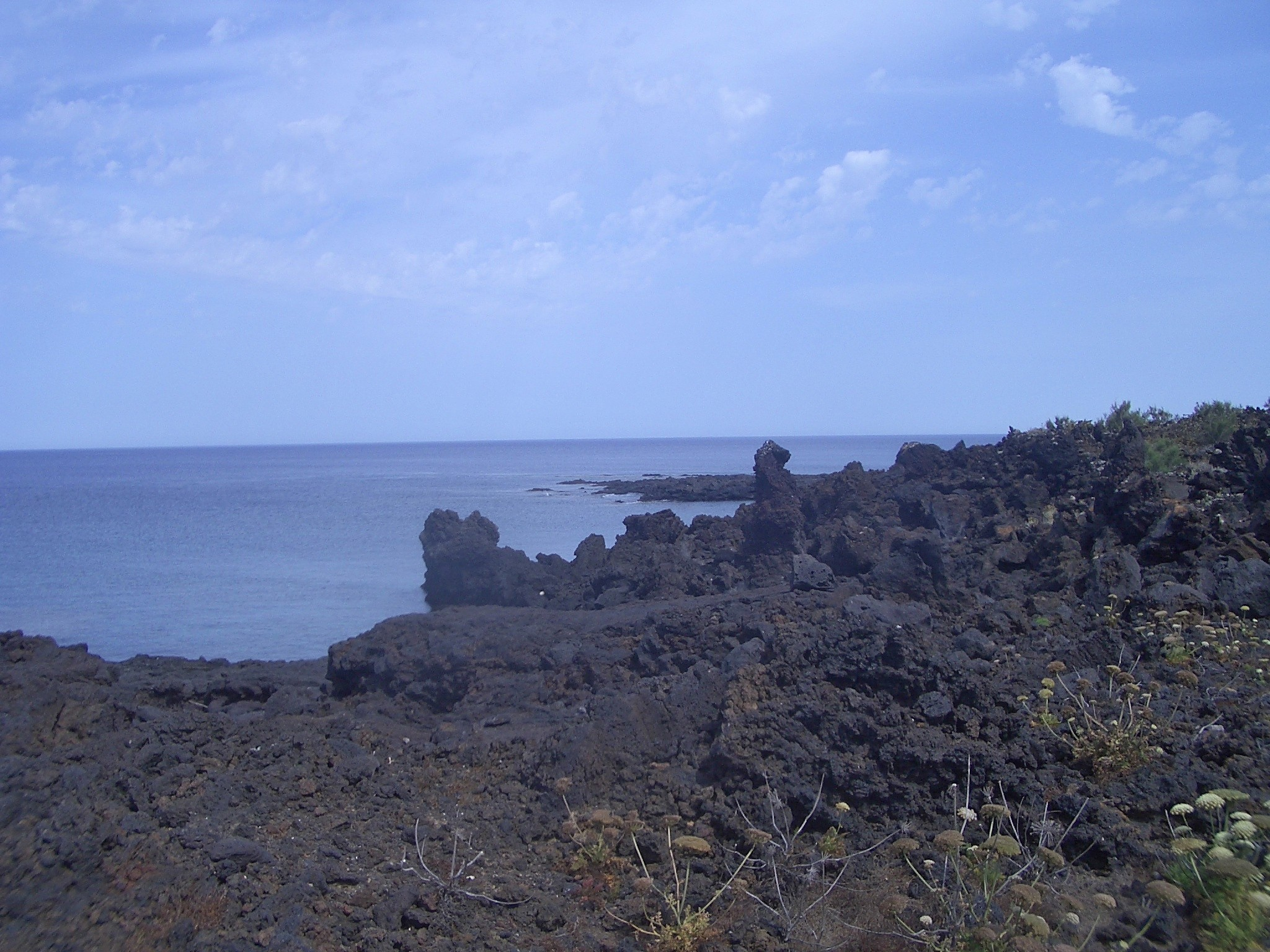 Linosa, landscape of lava rocks